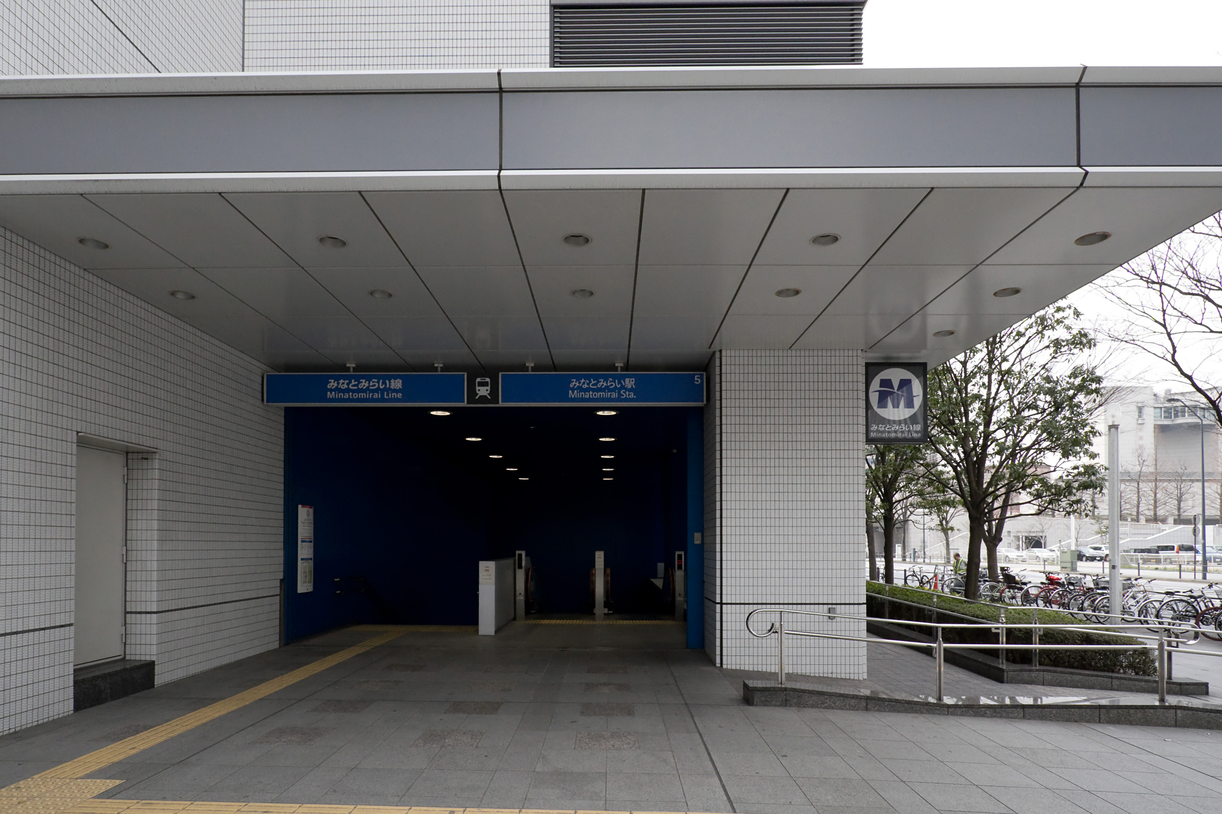 Minatomirai Station Exit No.5